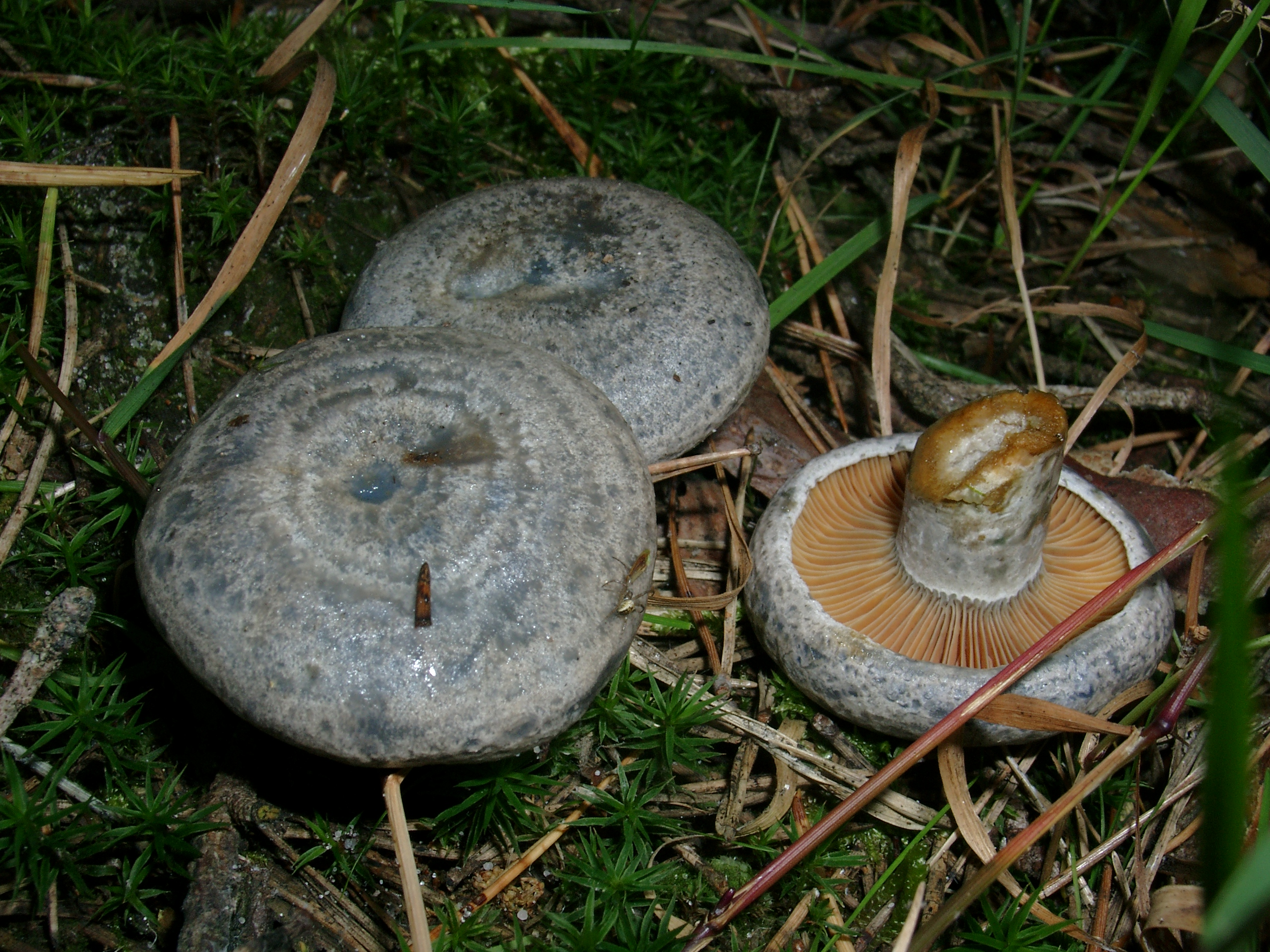 Lactarius quieticolor